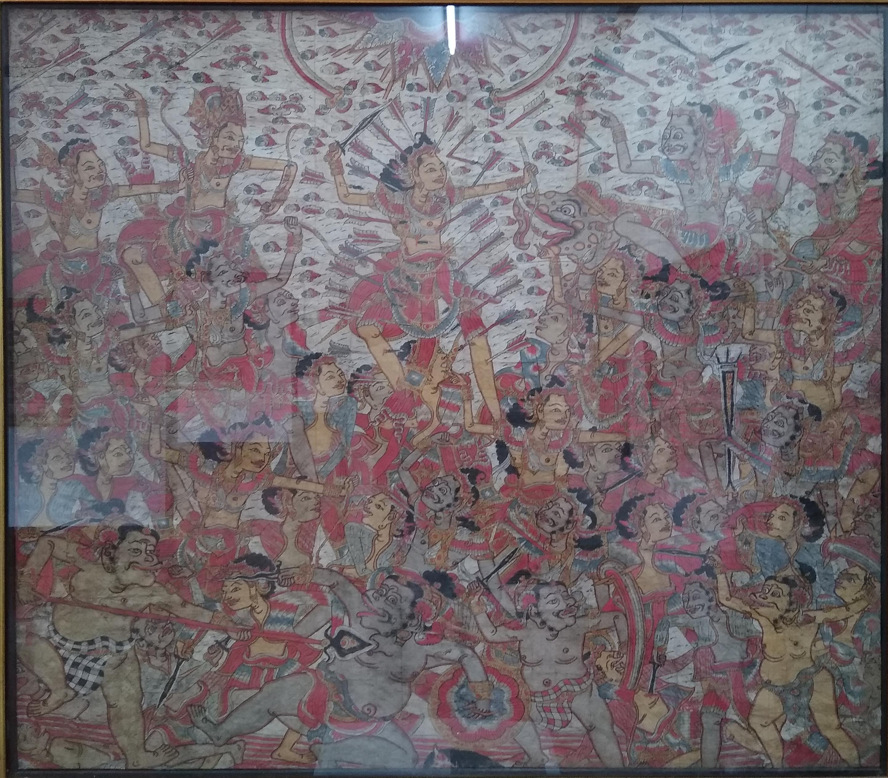 The Death of Abhimanyu (Abhimanyu Gugur), a painting at the Neka Art Museum in Ubud, Bali. Late 19th century; mineral pigments, indigo, and ink on bark cloth; 100 x 106 cm. Anonymous. Kamasan, Klungkung, Bali.